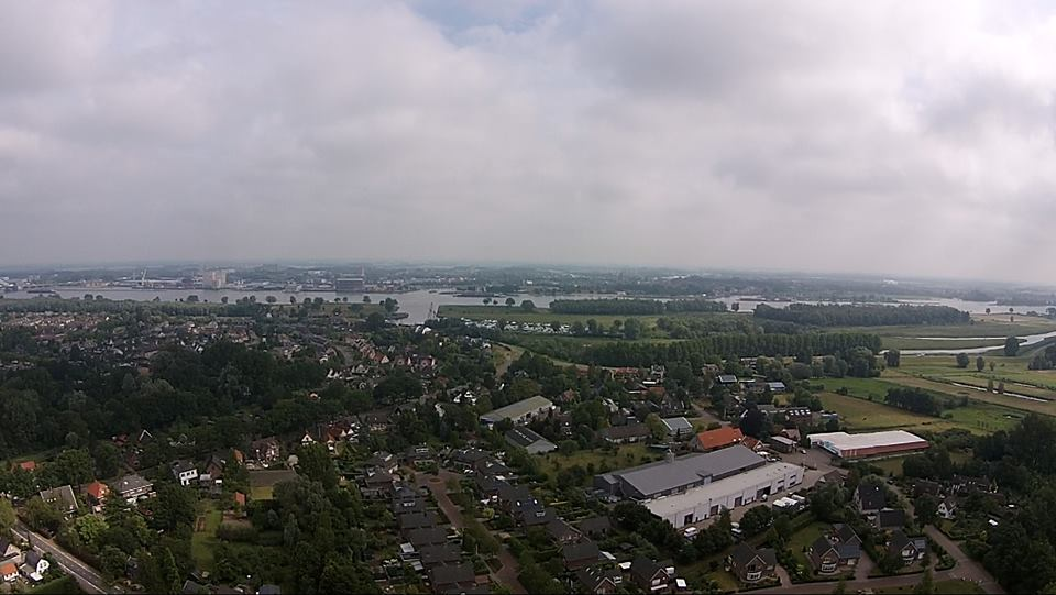 Eastern part of Sleeuwijk, with the Groesplaat, the Boven-Merwede and Gorinchem at the background